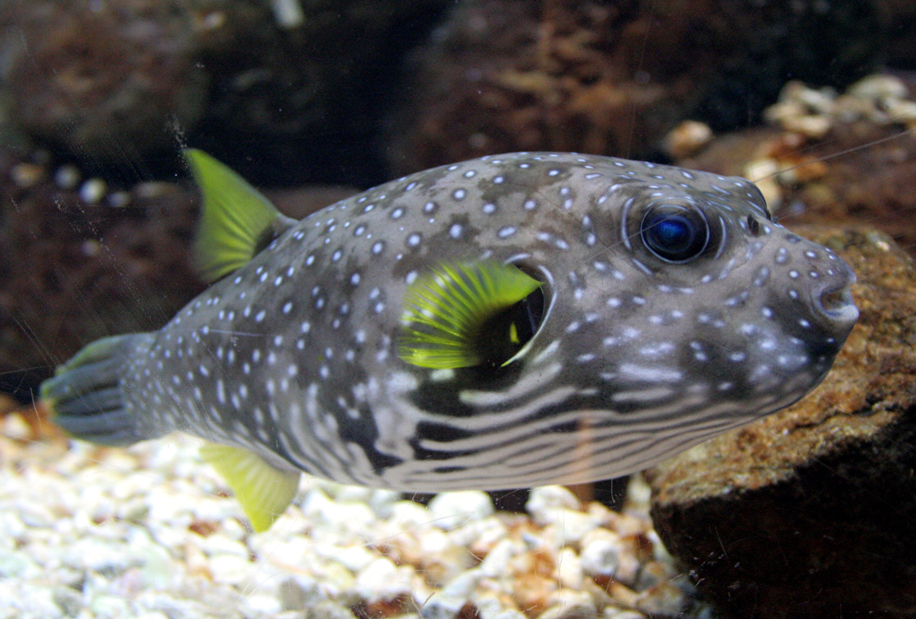 Arothron hispidus in Seattle aquarium